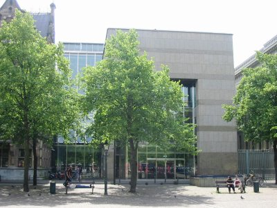 Entrance to the Tweede Kamer building from the Plein in The Hague.